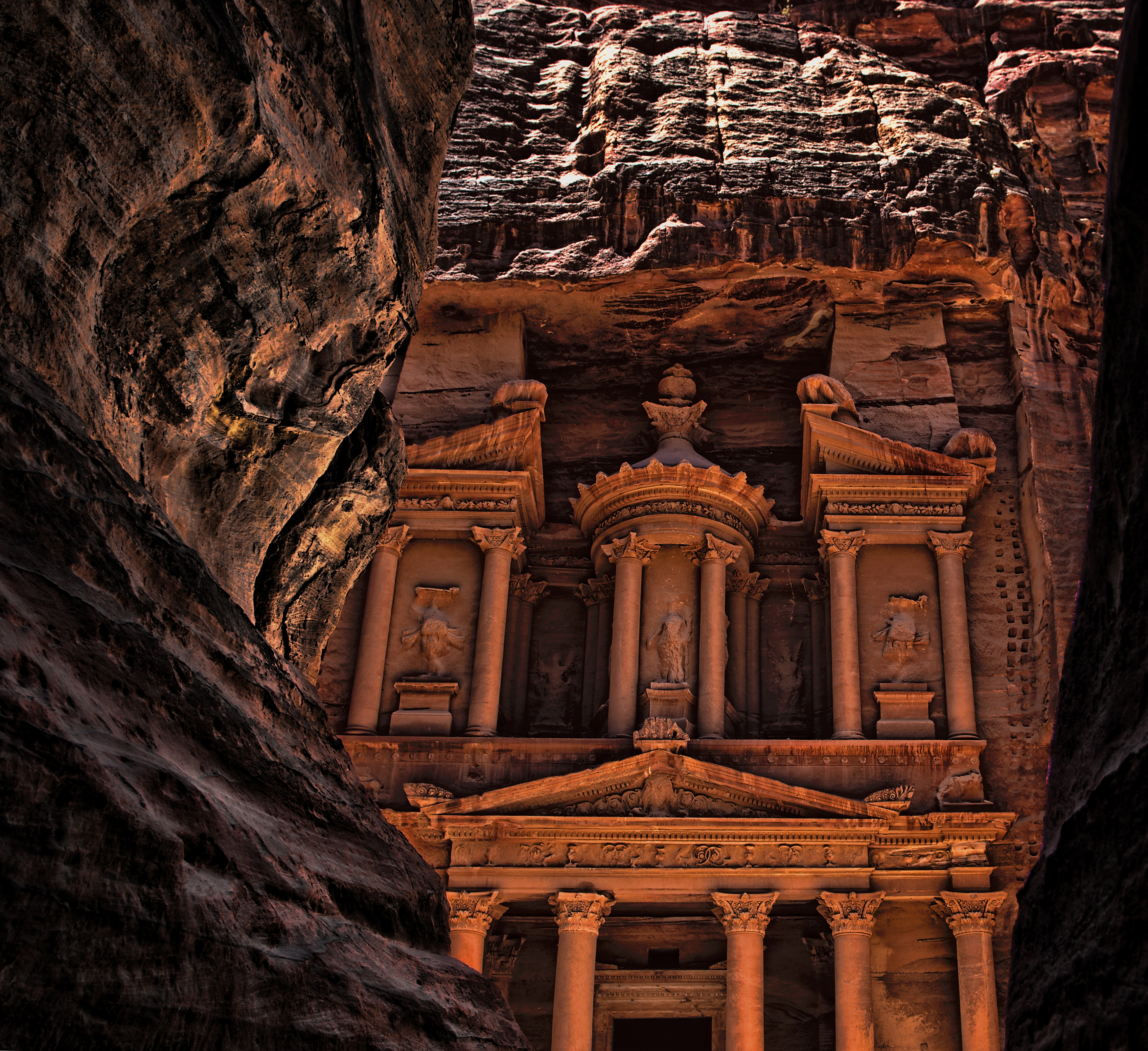 Al-Khazneh is one of the most elaborate temples in the ancient Jordanian city of Petra. As with most of the other buildings in this ancient town, including the Monastery (Arabic: Ad Deir), this structure was also carved out of a sandstone rock face. It has classical Greek-influenced architecture, and it is a popular tourist attraction.